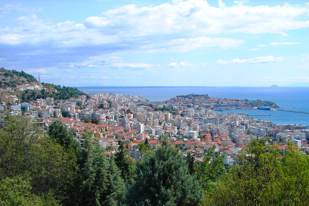 a@a Kavalla view Greece